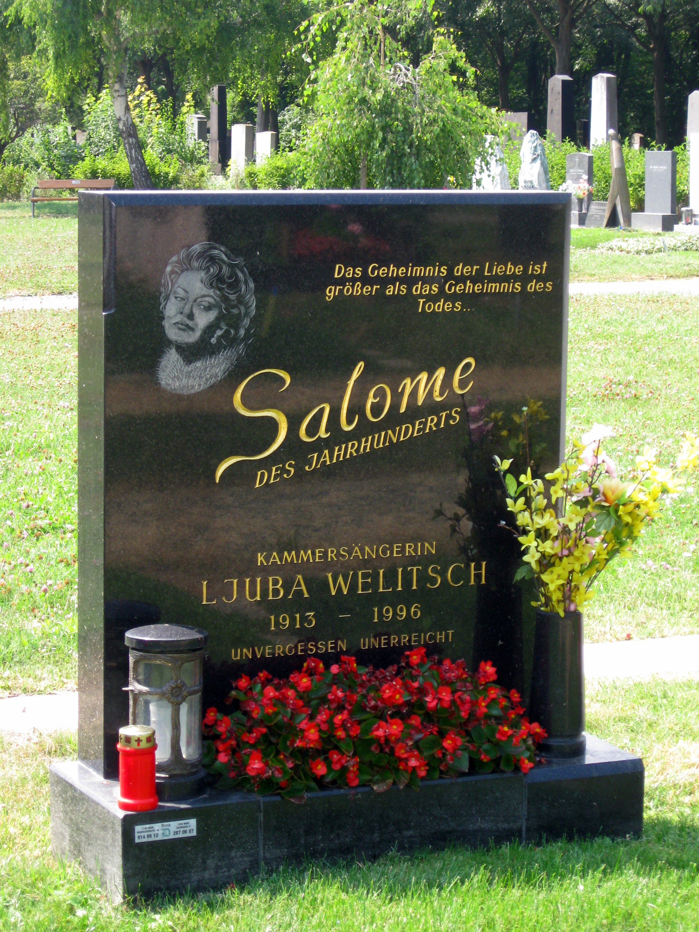 Grave of Ljuba Welitsch in Section 40 (reserved for honorary Austrians) in the Zentralfriedhof in Vienna